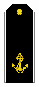 Rank insignia of the Russian Federation´s armed forces (1994-2010), here Sea war fleet (Navy) "Kursant” (OR1) – shoulder strap dress uniform.